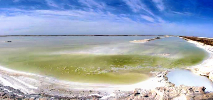 Dabusun Nor or Dabusun Lake (Dabuxun Hu), part of the Qarhan Playa in the Qaidam Basin north of Golmud in Qinghai Province, China.